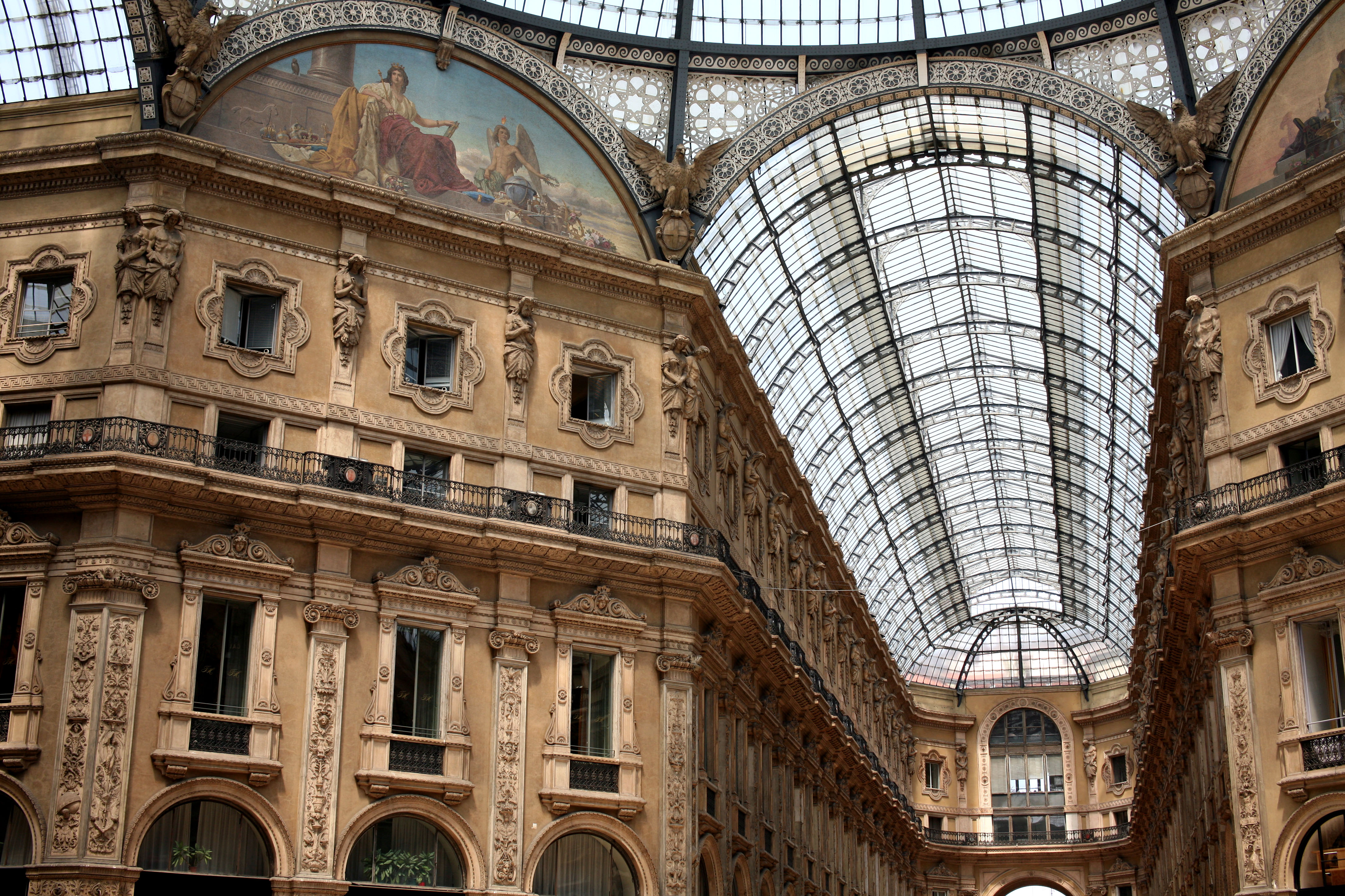 Galleria Vittorio Emanuele II (Milan)